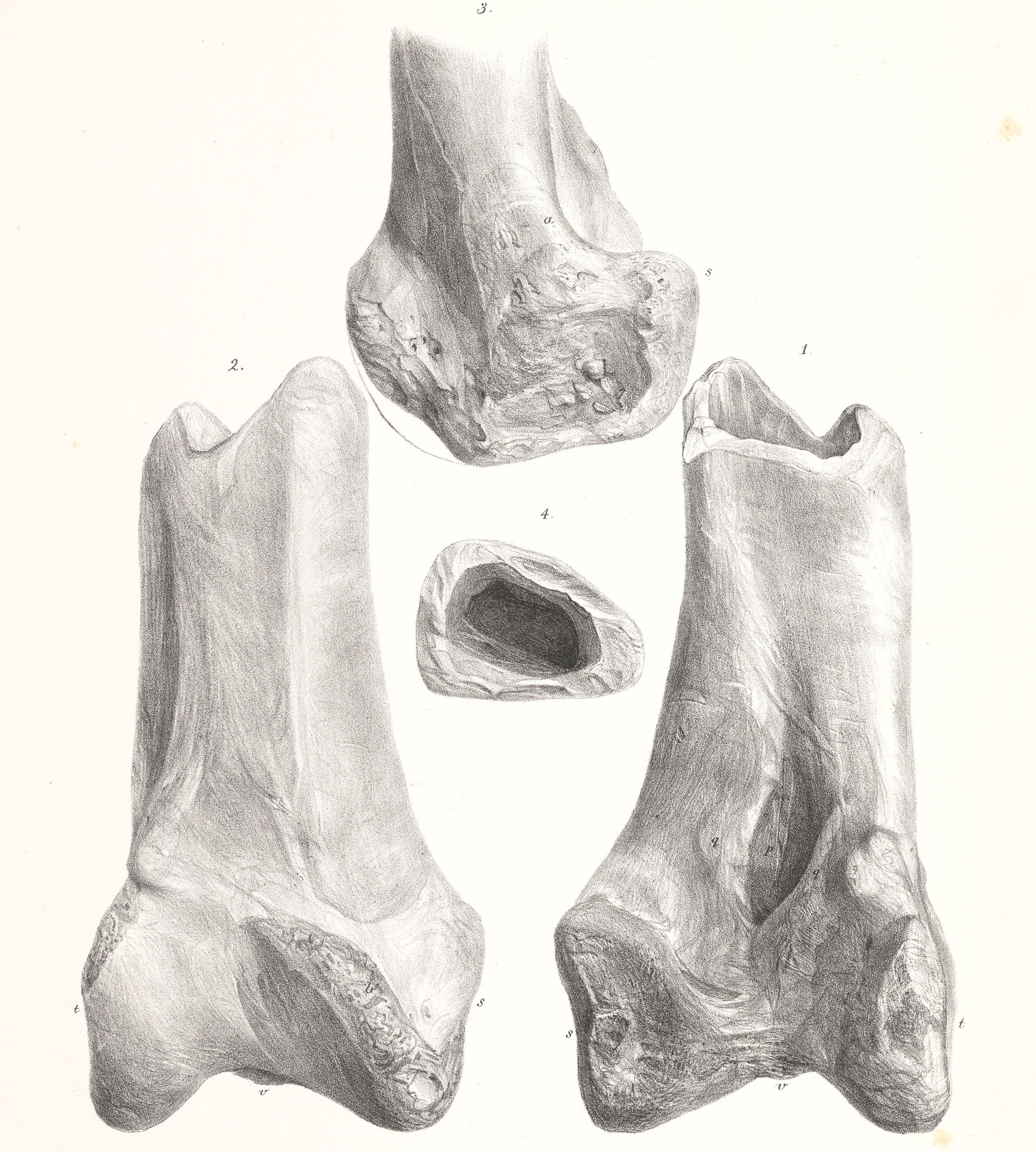 Holotype femur of Dromornis australis. Memoirs on the Extinct Wingless Birds of New Zealand, with an Appendix on those of England, Australia, Newfoundland, Mauritius, and Rodriguez by Sir Richard Owen